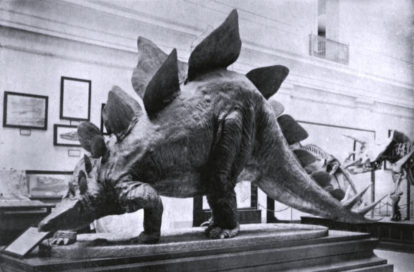 Plate 62: Life-sized restoration of Stegosaurus stenops in the U.S. National Museum No. 5794. Oblique view of the left side. Original model by Mr. Charles R. Knight in 1903.